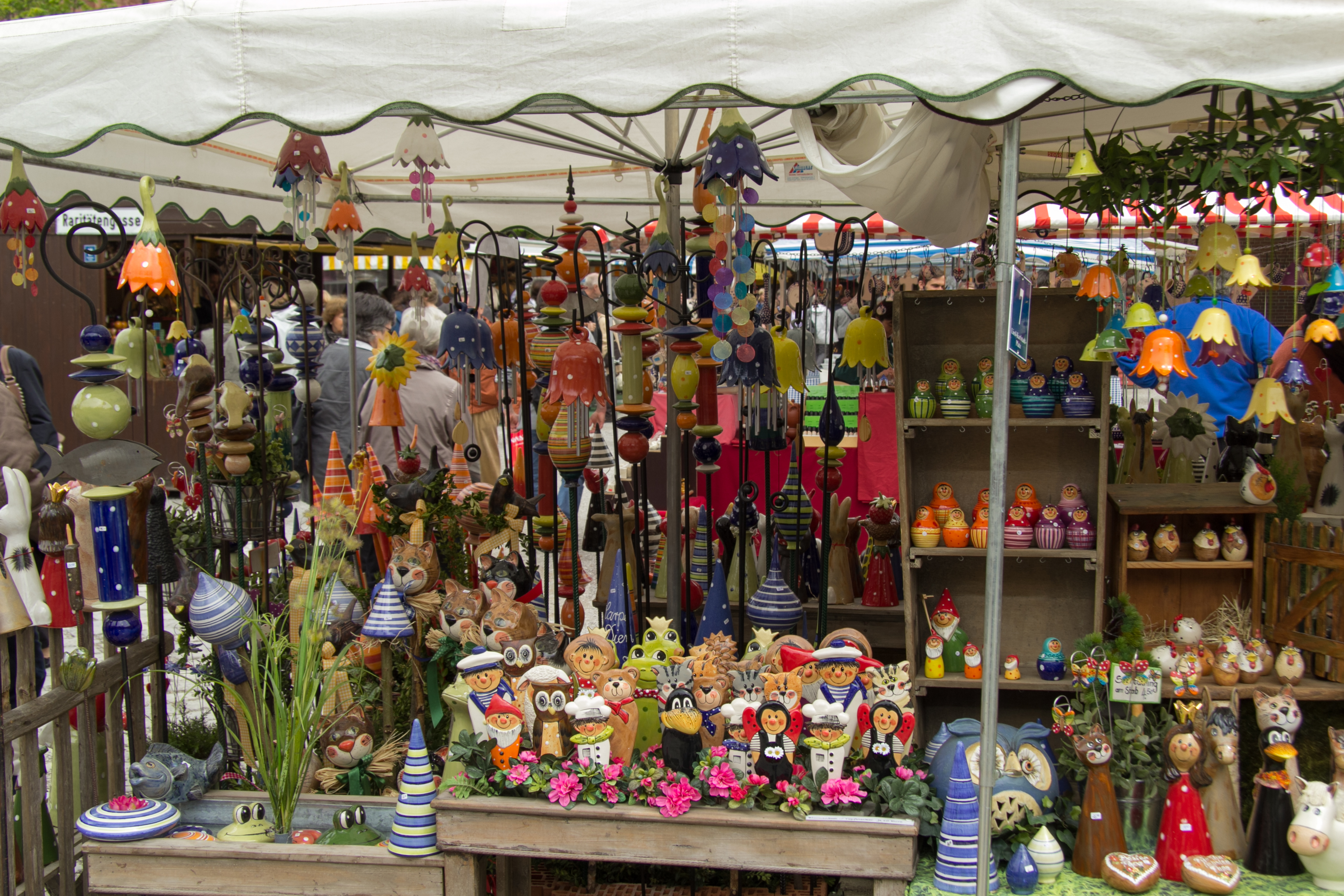 Glassware at a market stand at Auer Dult in May 2013.